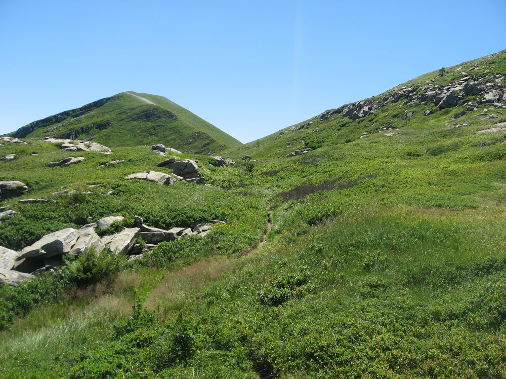 Guadine Pass